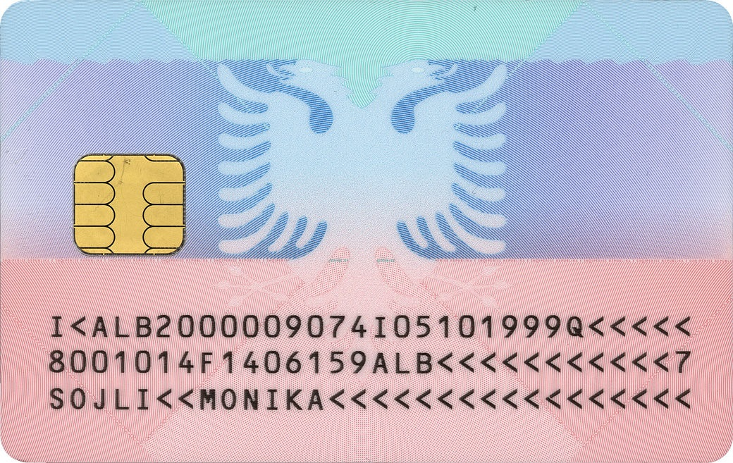 Albanian electronic ID Card (back)